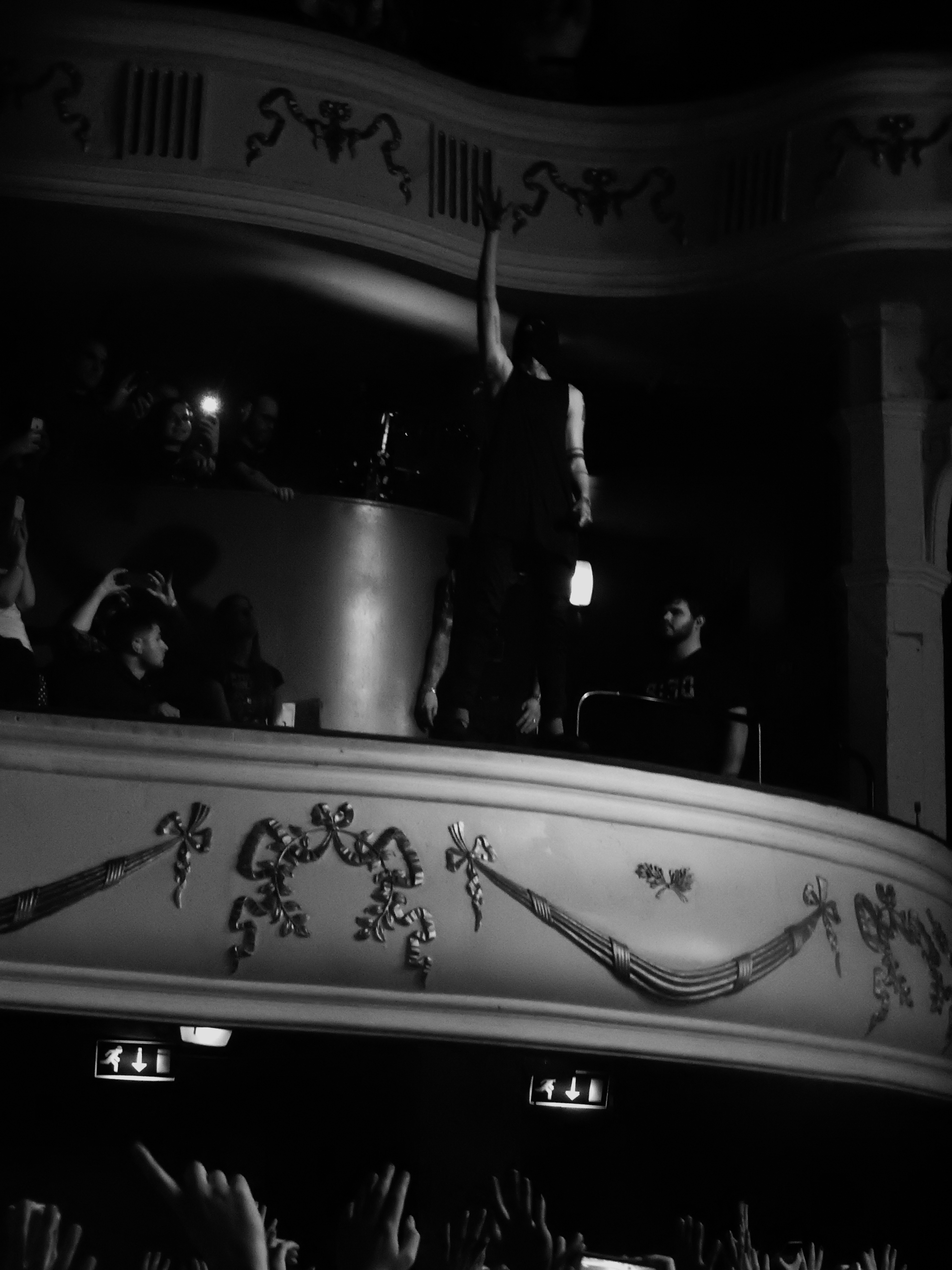 Twenty One Pilots, Shepherds Bush Empire, London